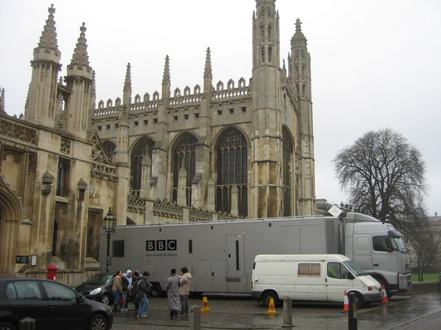 BBC outside broadcast A familiar sight during the run up to Christmas. Preparing to broadcast the Festival of Nine Lessons and Carols. The service was first broadcast in 1928 and, with the exception of 1930, has been broadcast annually, even during the Second World War, when the ancient glass (and also all heat) had been removed from the Chapel.